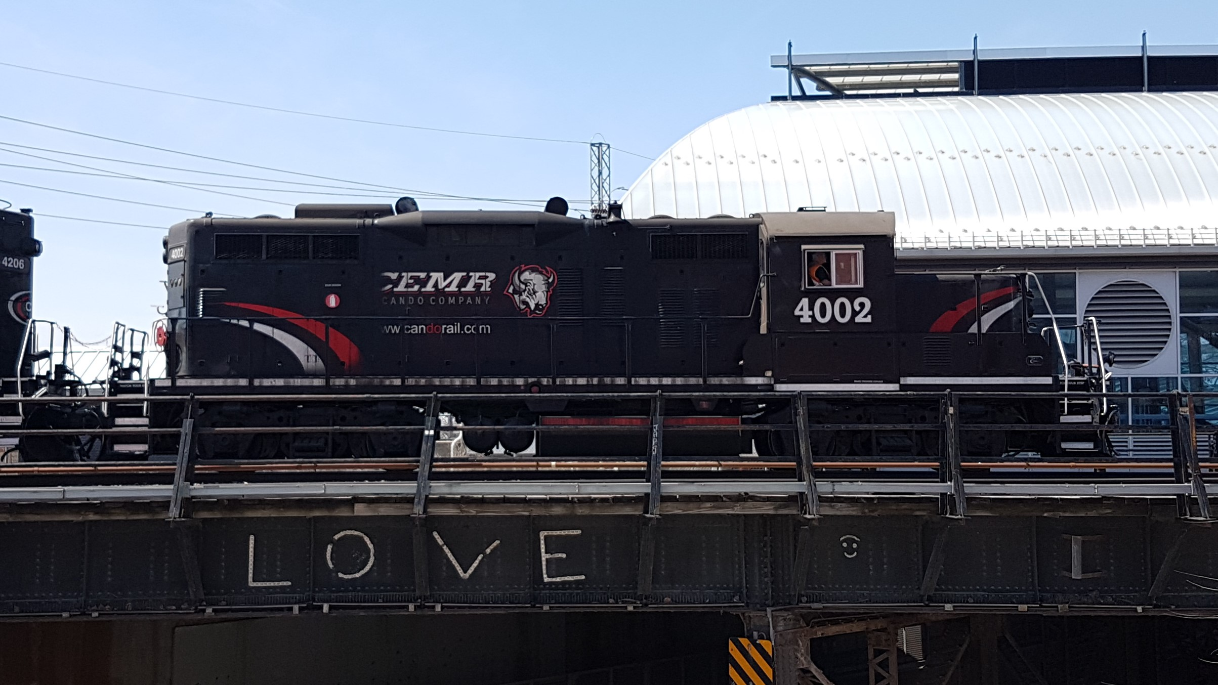 CEMR 4002 leading a train across Osborne Street in Winnipeg.